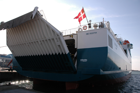 M/S Dueodde - IMO: 9323704 - Call Sign: OYBB